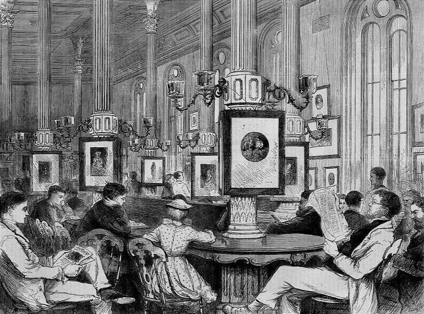 Reading-Room of the Boston Public Library, an engraving drawn by J. J. Harley and printed January 1871 in Every Saturday, a weekly newspaper published in Boston by James Osgood & Company. This depicts the library's first Boylston Street building, which was designed by architect Charles Kirk Kirby (1826-1910). Used between 1858 and 1895, it was replaced by the present building on Copley Square.